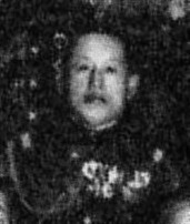 General Masatane Kanda (1890-1983)